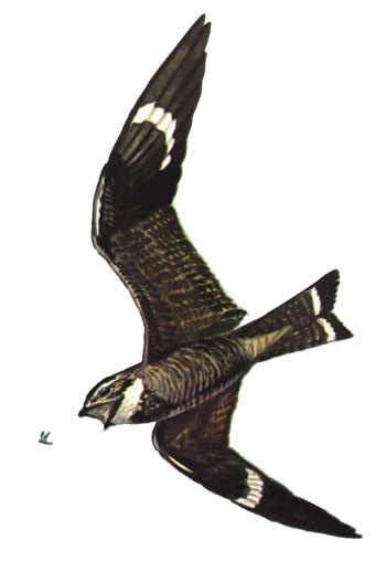 Common Nighthawk, Chordeiles minor, Offset reproduction of painting. Altered from original (background removed).